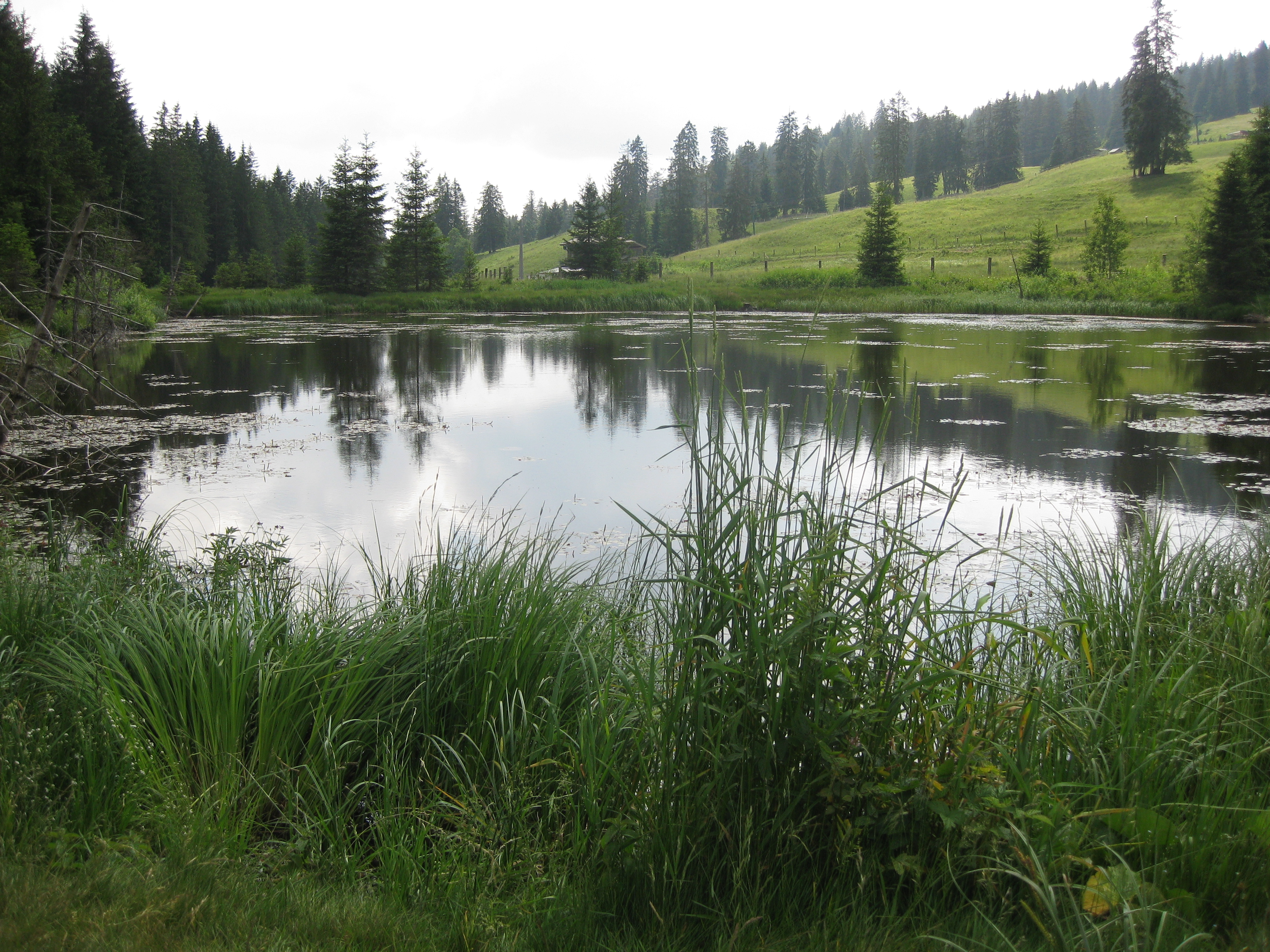 Rathvel pond, Fribourg Canton, Switzeland